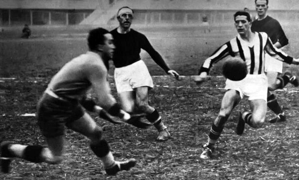 Italian footballer Guglielmo Gabetto (right) playing for Juventus between late 1930s and early 1940s at “Mussolini” Stadium in Turin, Italy.